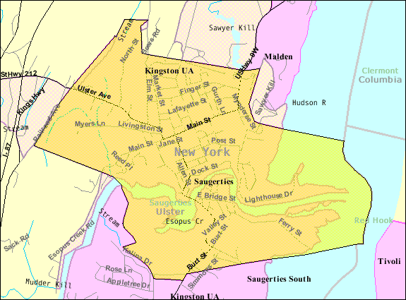 U.S. Census reference map of Saugerties (village), New York